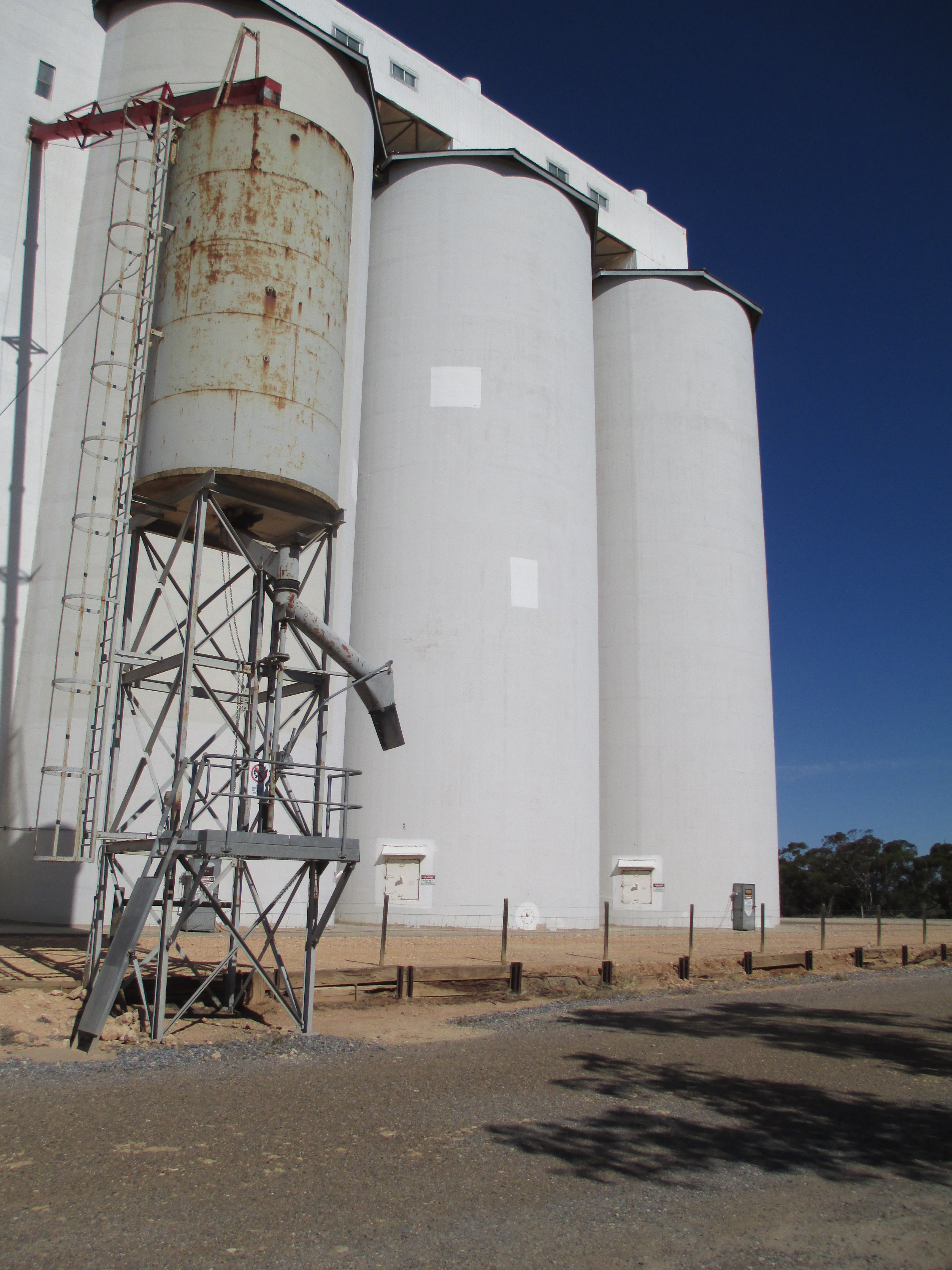 loader at silos on the former railway at Wunkar, South Australia